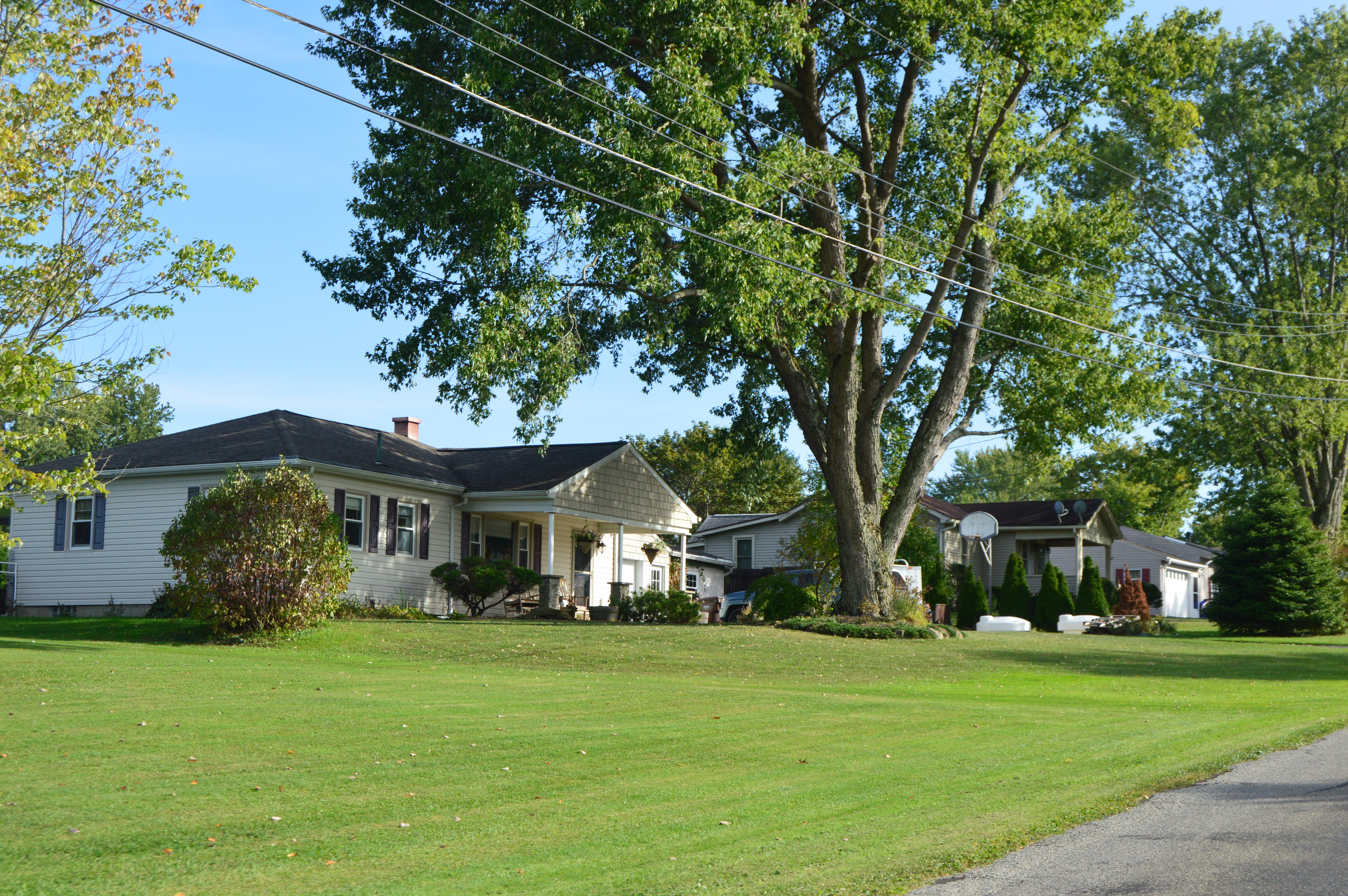 Houses on the eastern side of Milton Street, south of Nora Street, in Clark, Pennsylvania, United States.